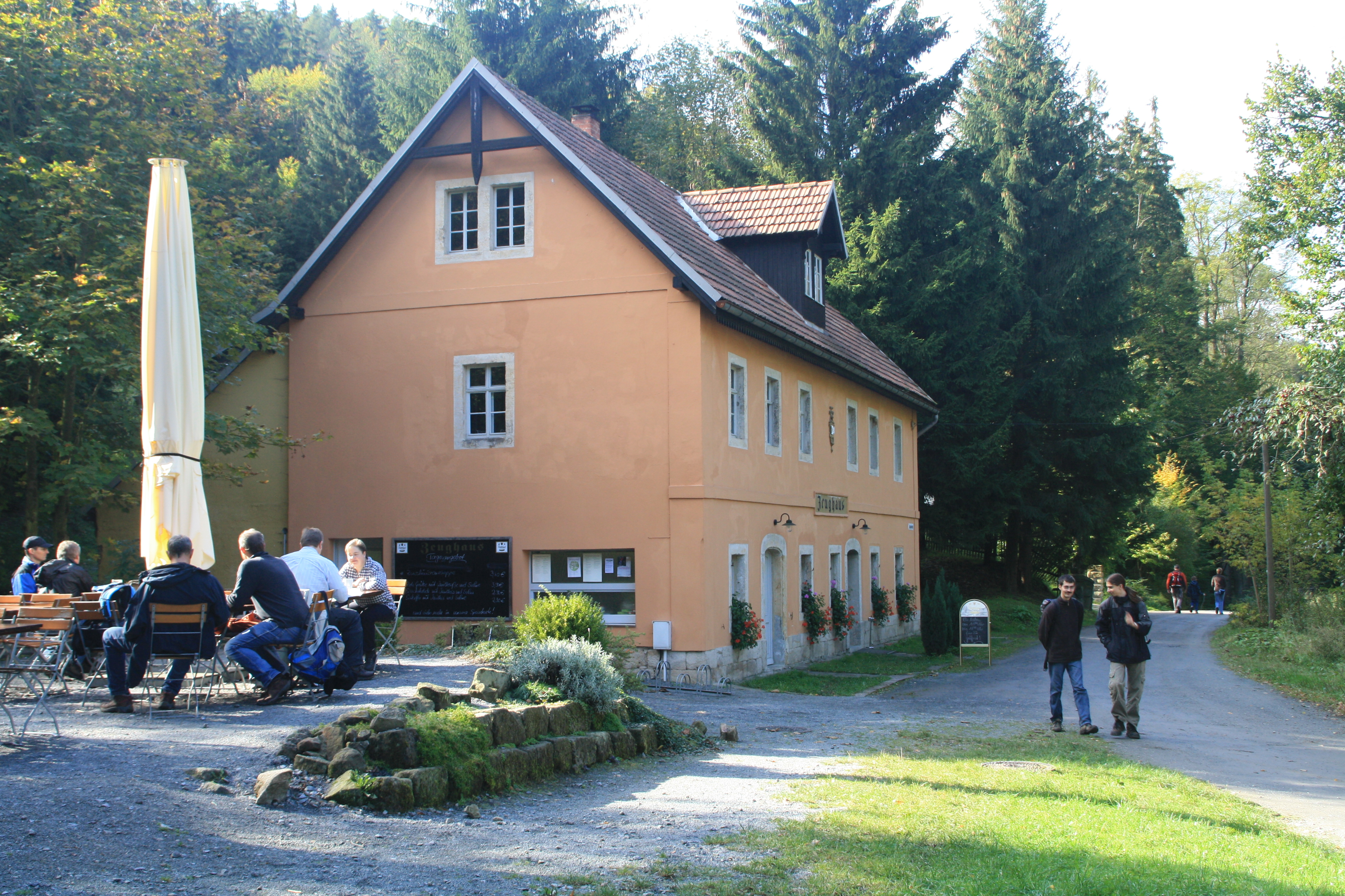 Restaurant "Altes Zeughaus", Saxon Switzerland